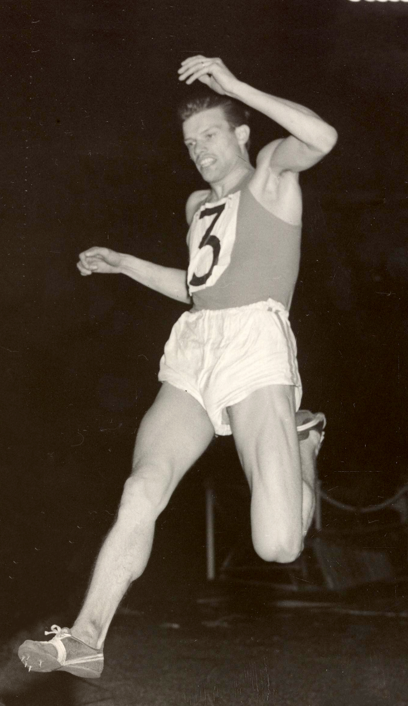 Karl-Erik Israelsson at the London-Stockholm intercity competition